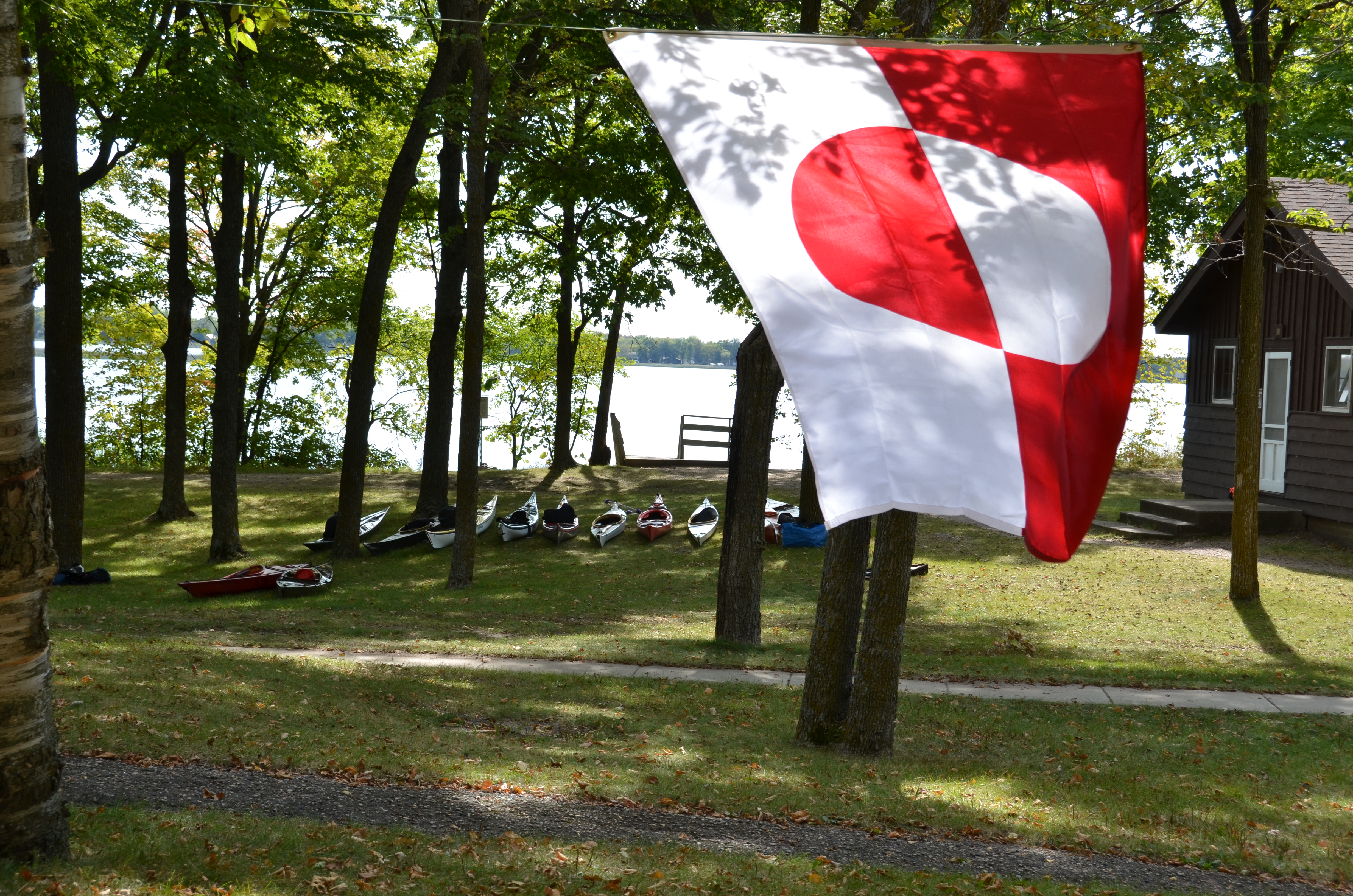 Traditional Paddlers Gathering, MN 2012